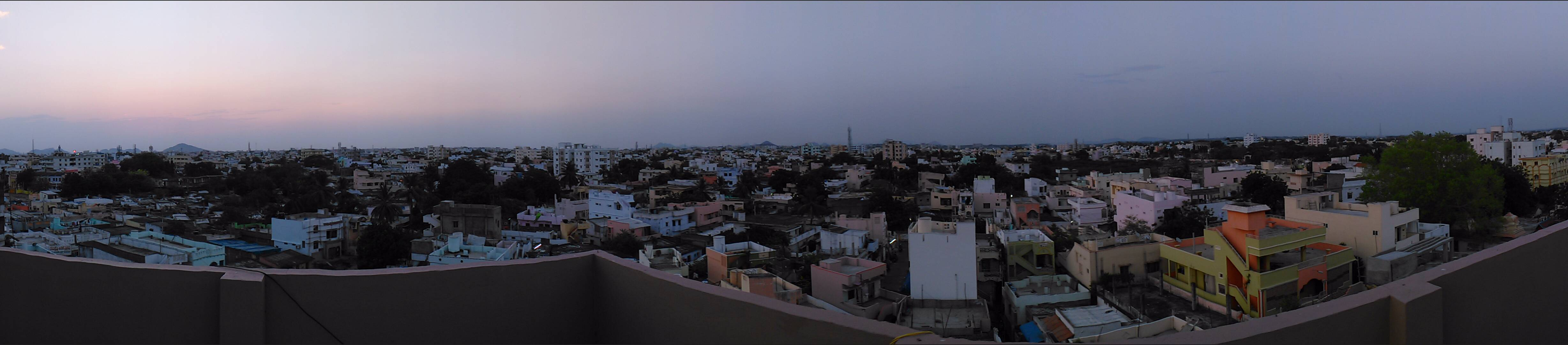 Panoramic view of Guntur City(West)